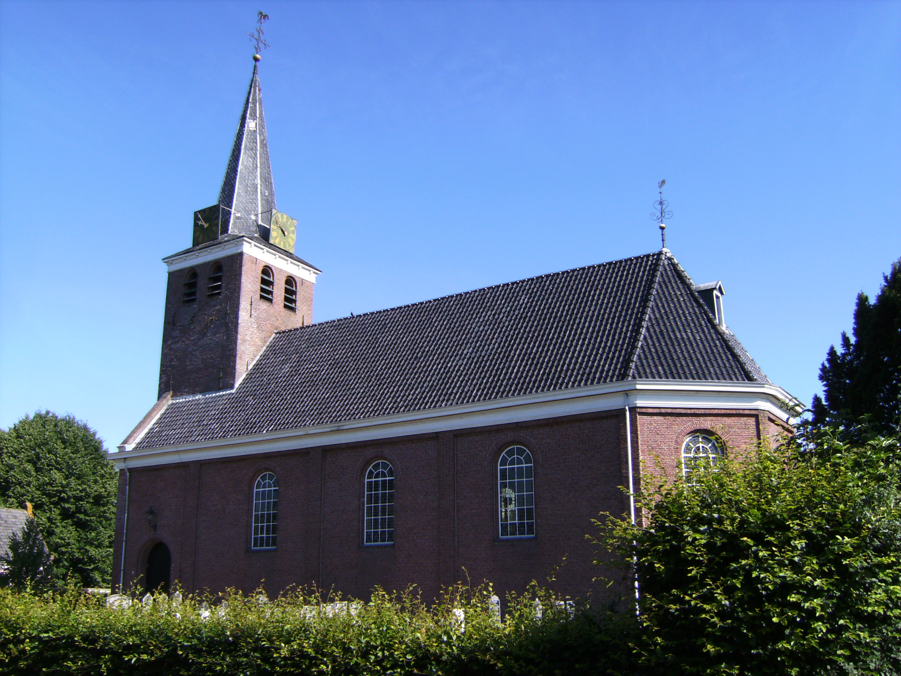 Langezwaag, church